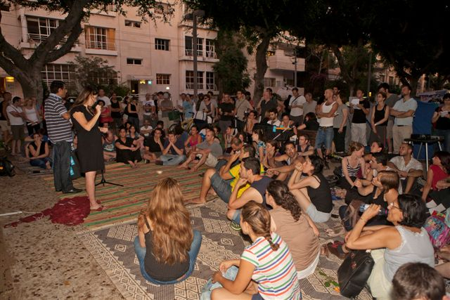 Yossi Yona in the 2011 summer protests in Israel